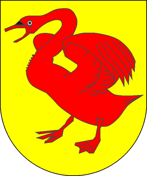 coats of arms of the county of Steinfurt